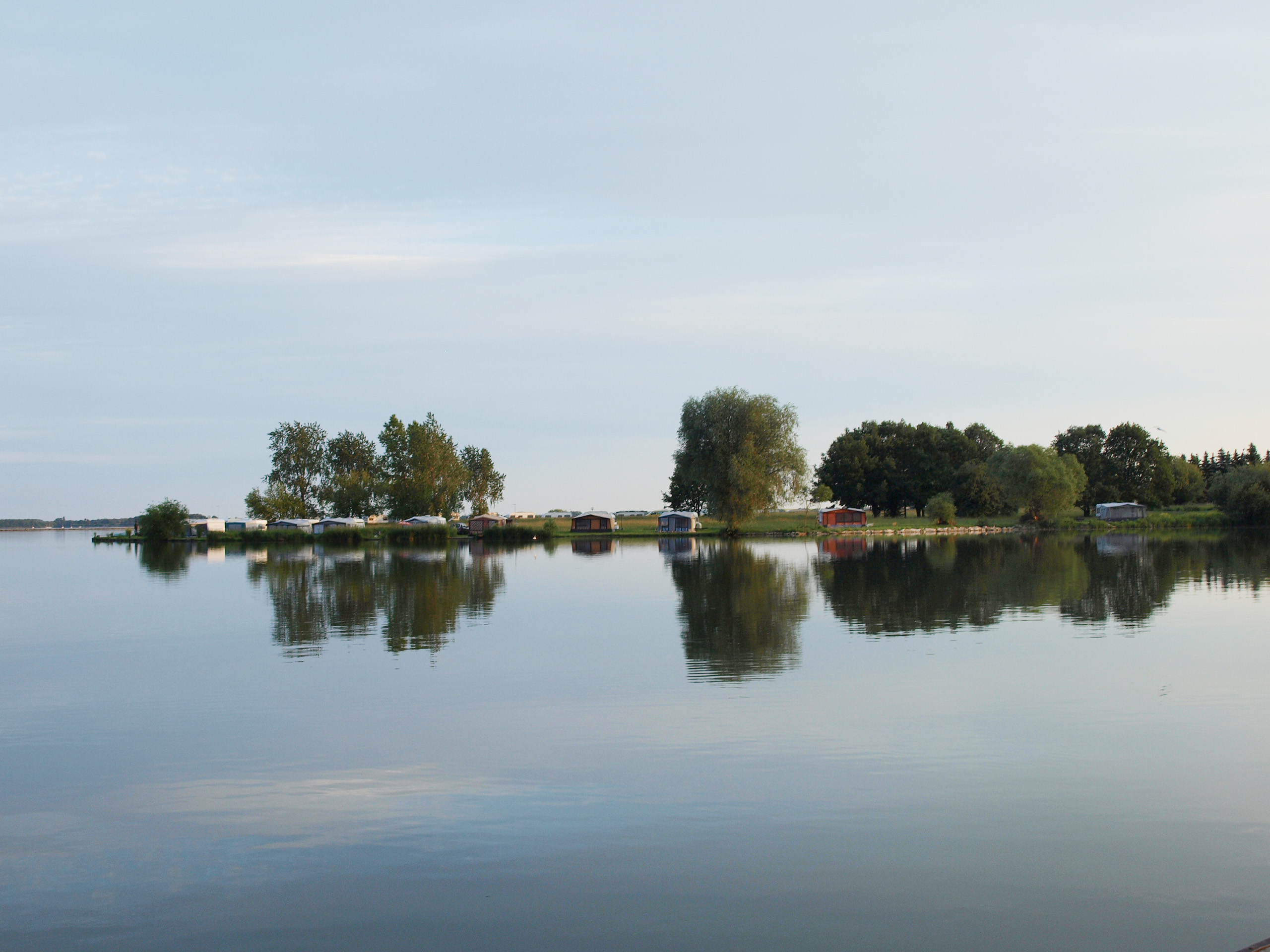 Rozkoš from camping near Česká Skalice